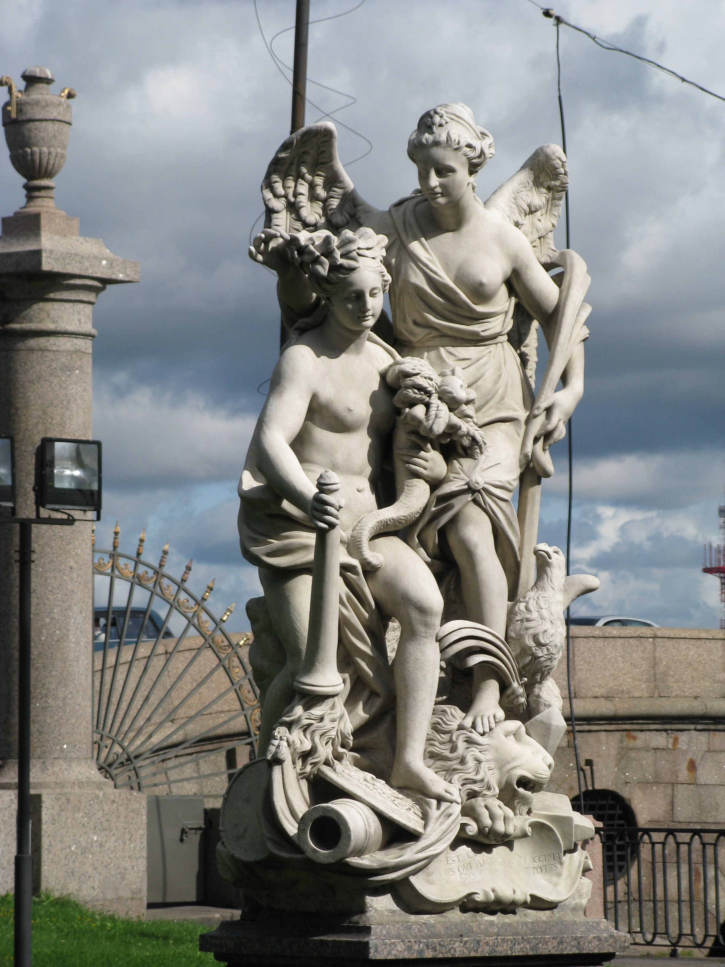 Peace and Victory by P. Baratta. 1725 at Summer Garden.